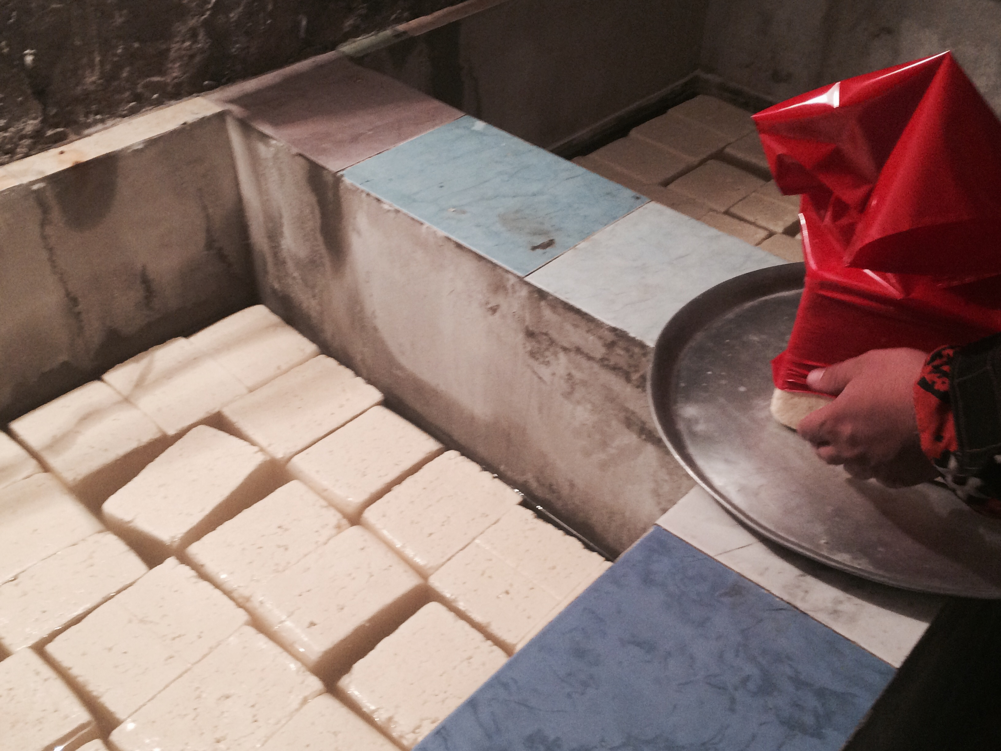 Lori Cheese in salt water waiting to mature.